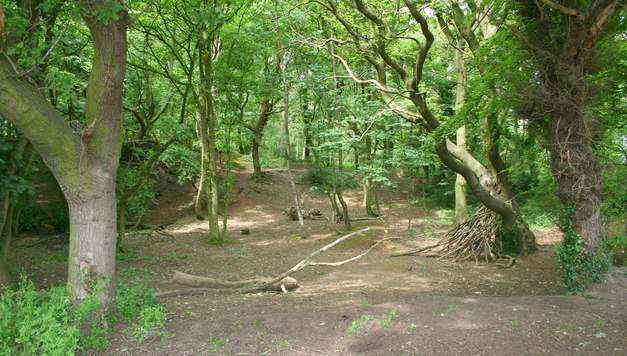 Sandstone Trail, Peckforton